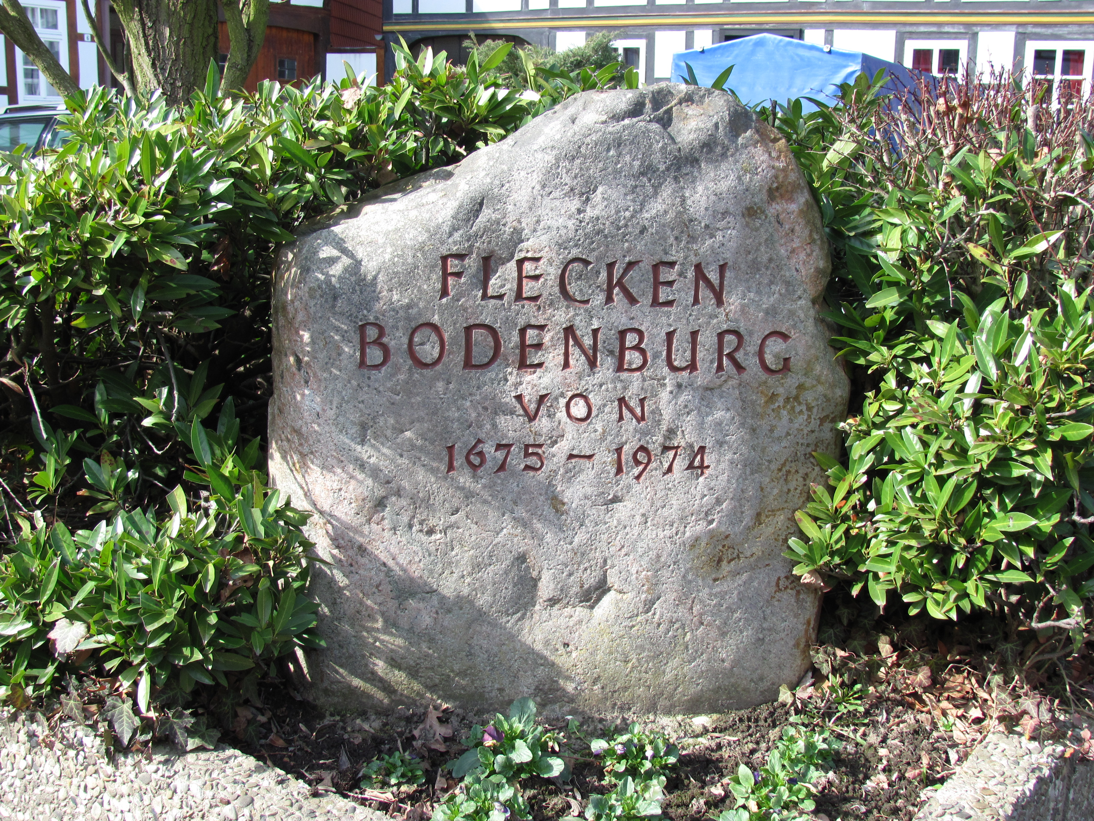 Memorial in the Market Place, Bad Salzdetfurth-Bodenburg, Lower Saxony, Germany